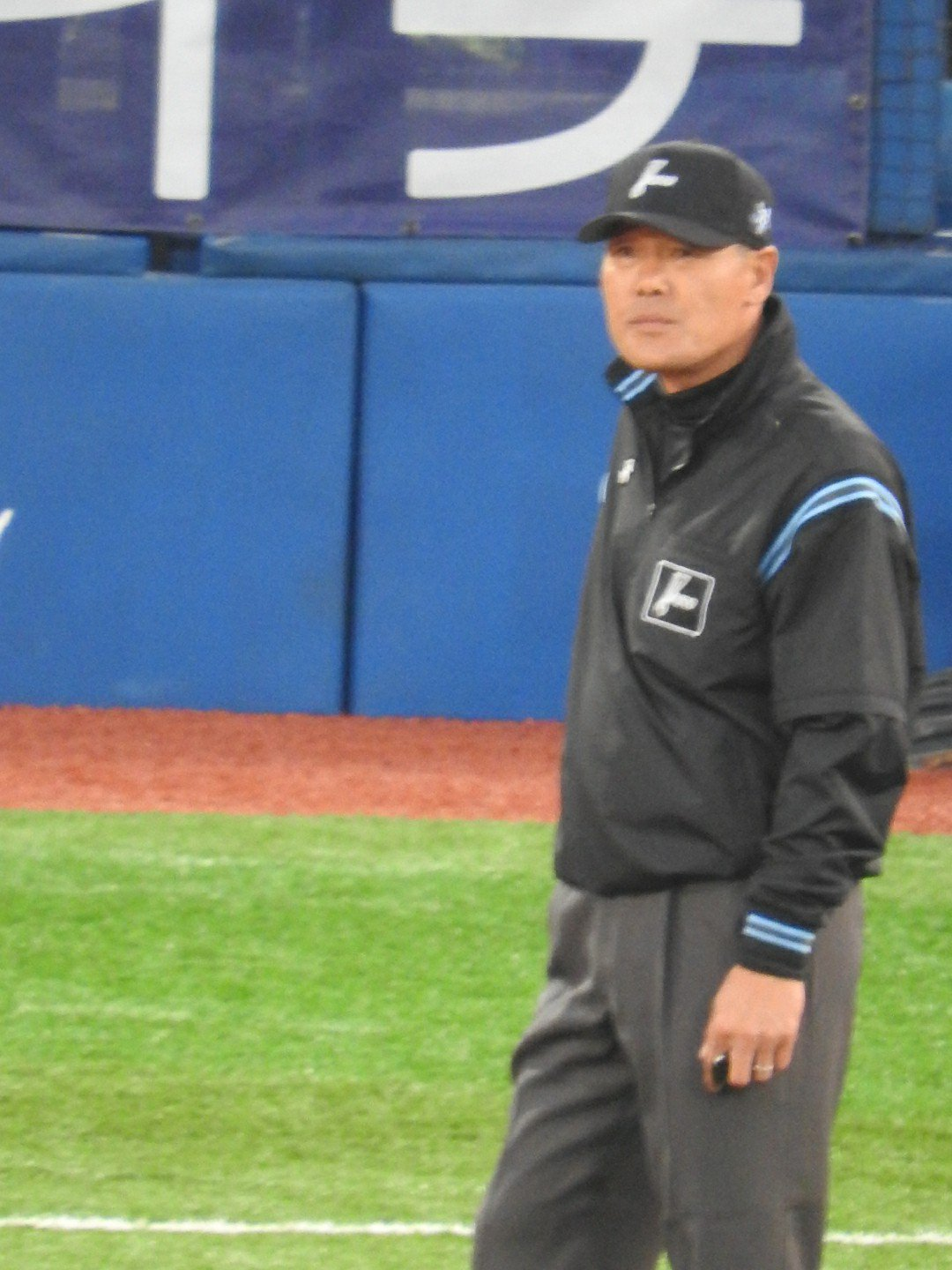 umpire of NPB.